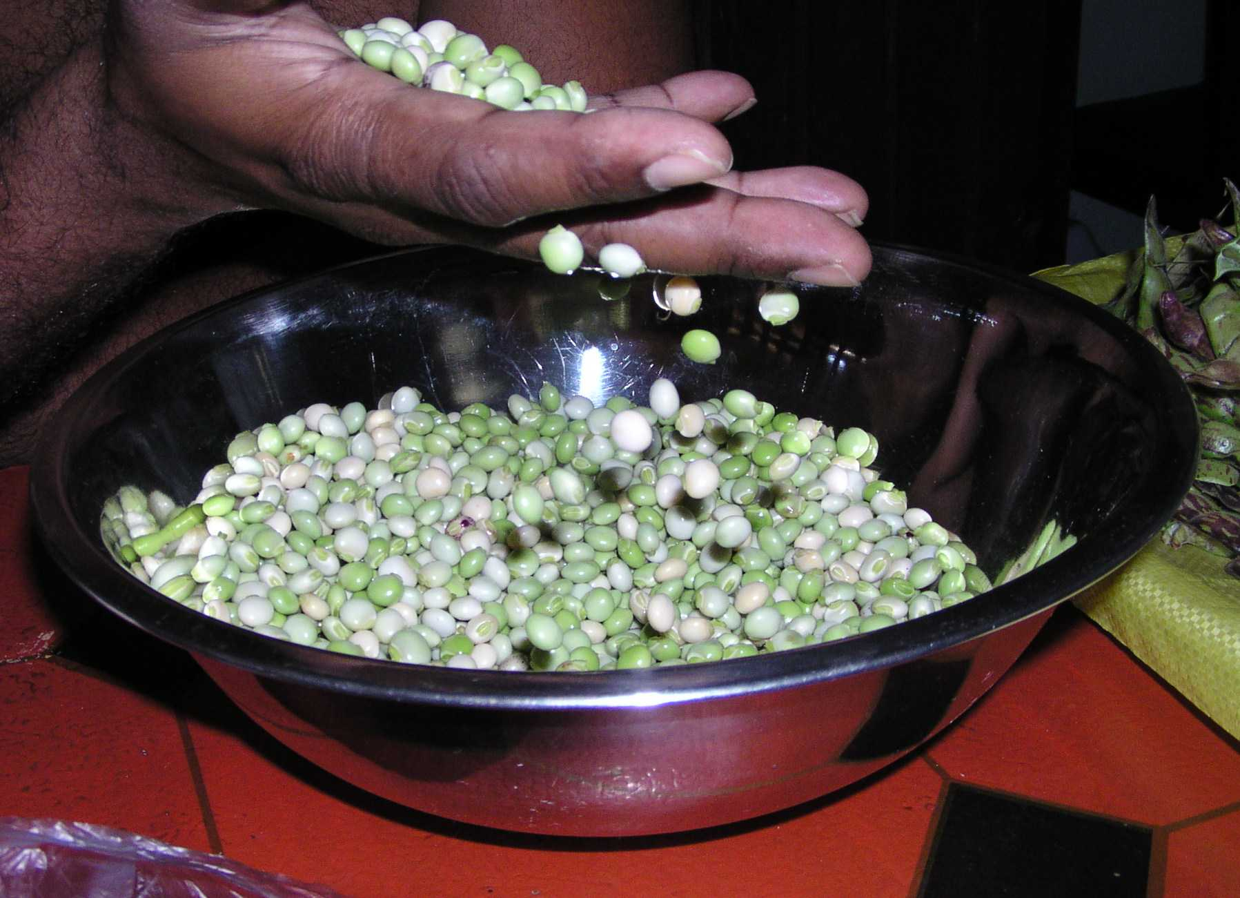 Pigeon peas, Cajanus cajan